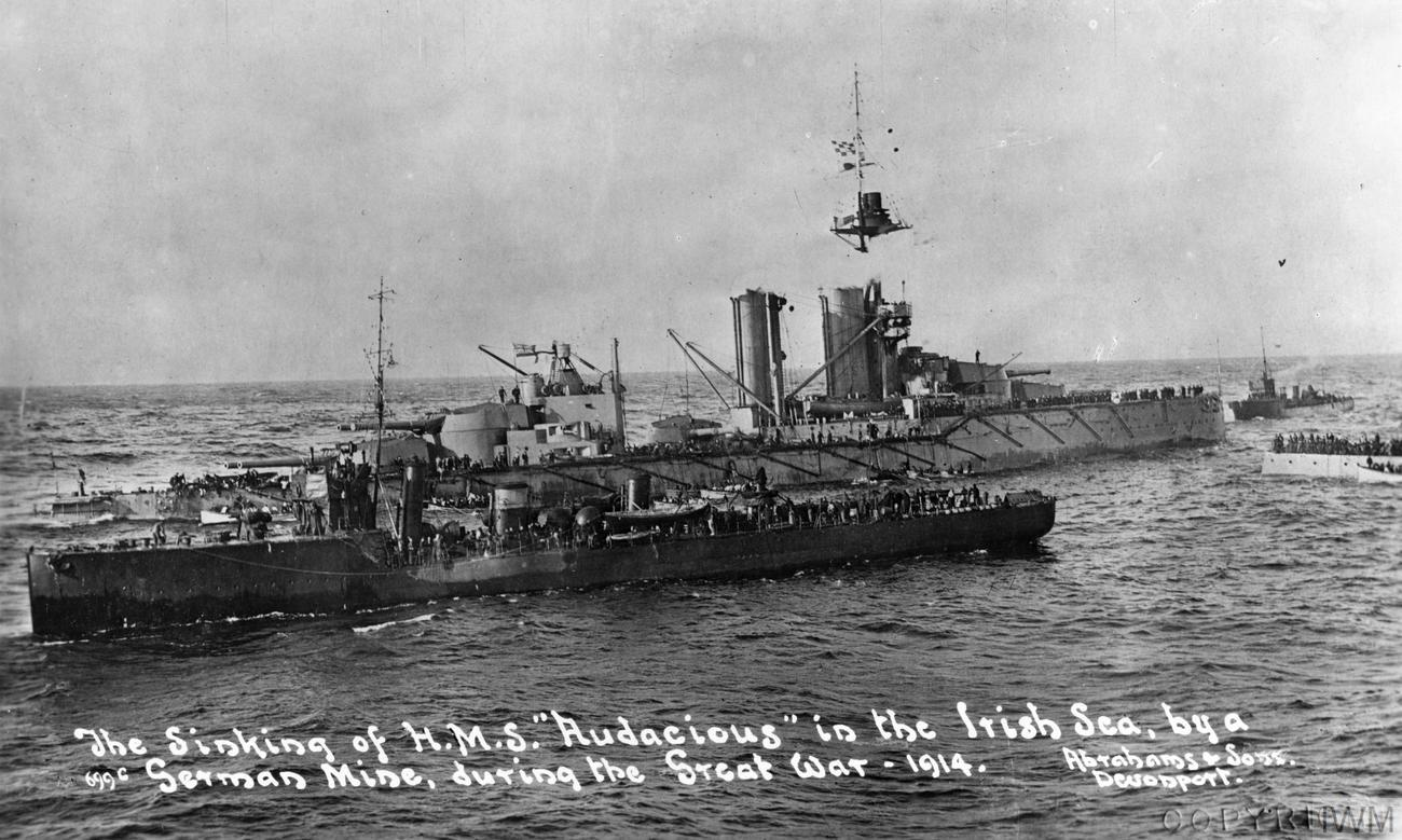 The crew of HMS Audacious being taken off, 27 October 1914